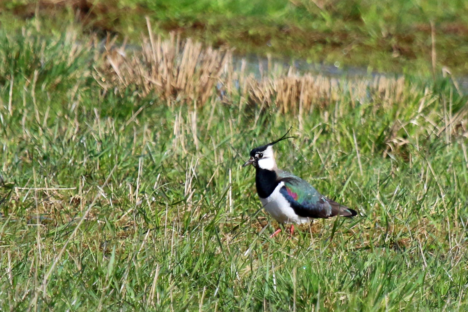 Northern lapwing (Vanellus vanellus), Otmoor, Oxfordshire